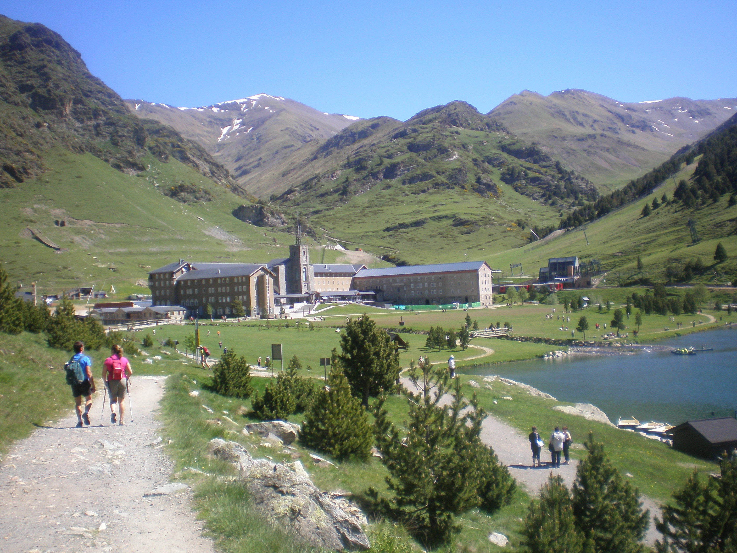 Vall de Núria Rack Railway on 20 June of 2009